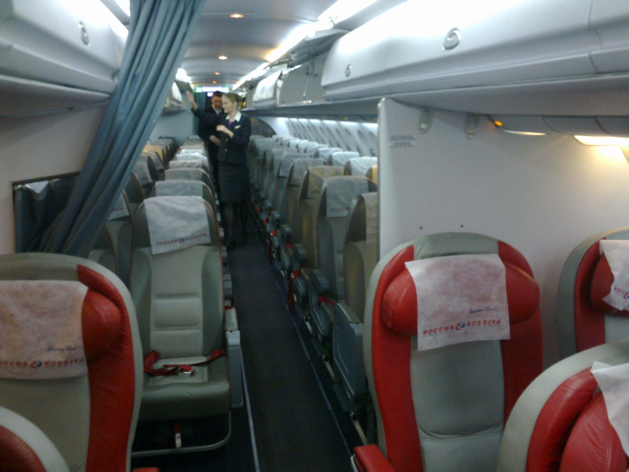 Cabin of Antonov An-148 aircraft